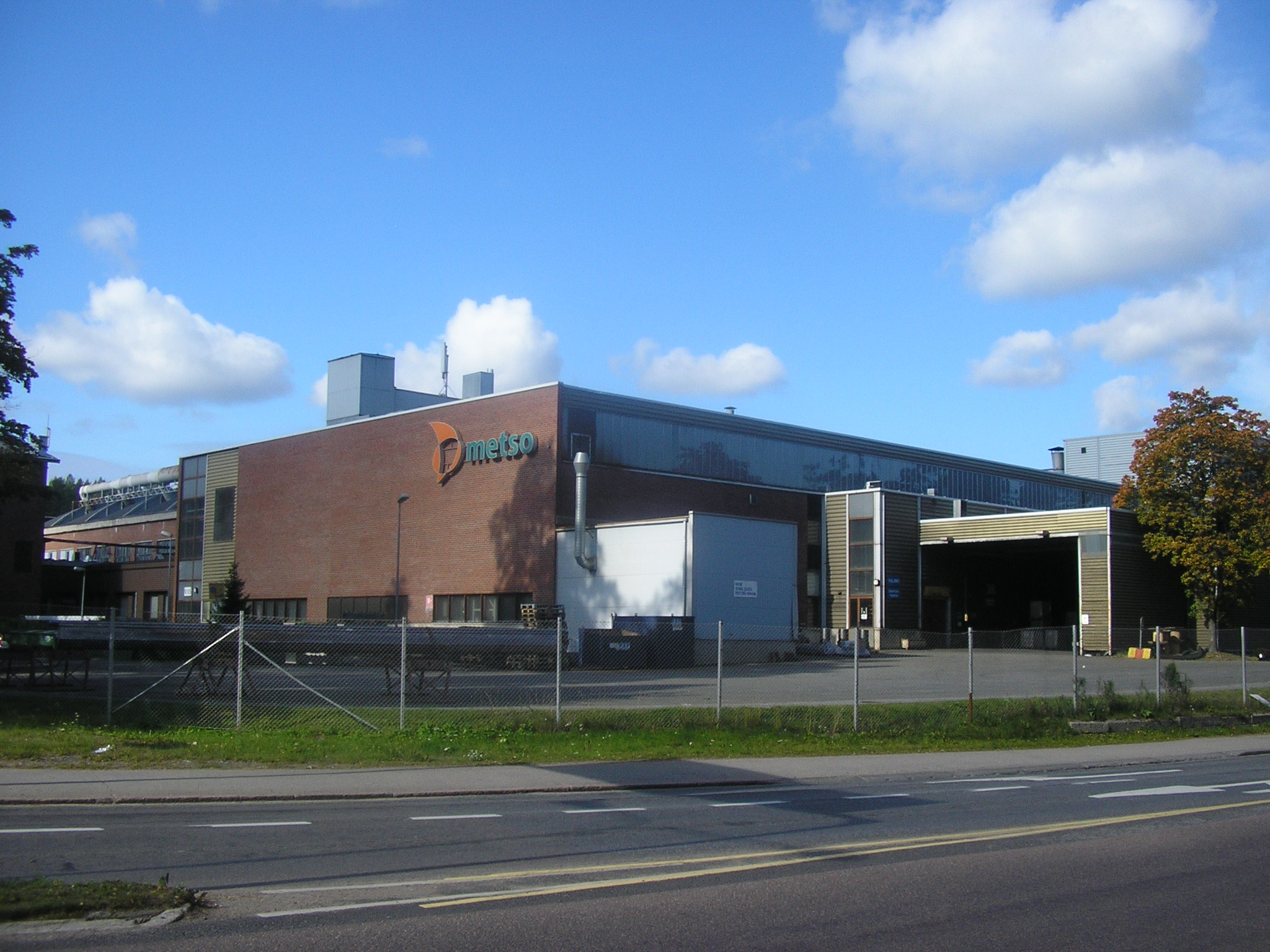 Metso Rautpohja factory in Jyväskylä, Finland